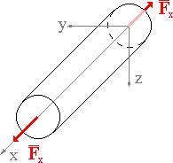 stretching